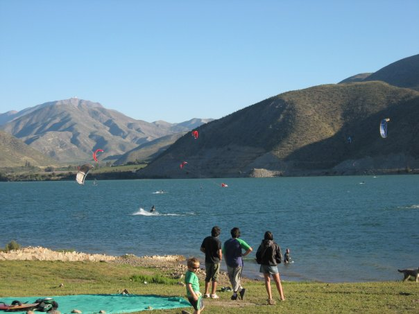 Puclaro, Chile